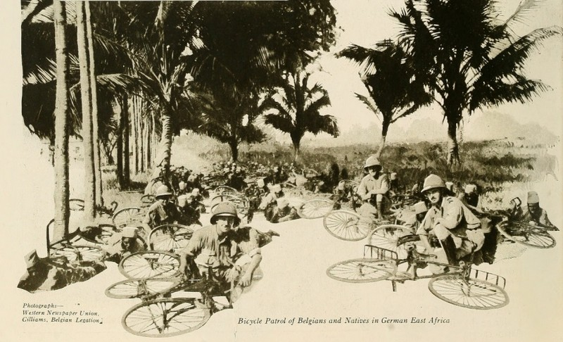 “Belgian troops of Patrol in German East Africa” - from the book Fighting America's fight.